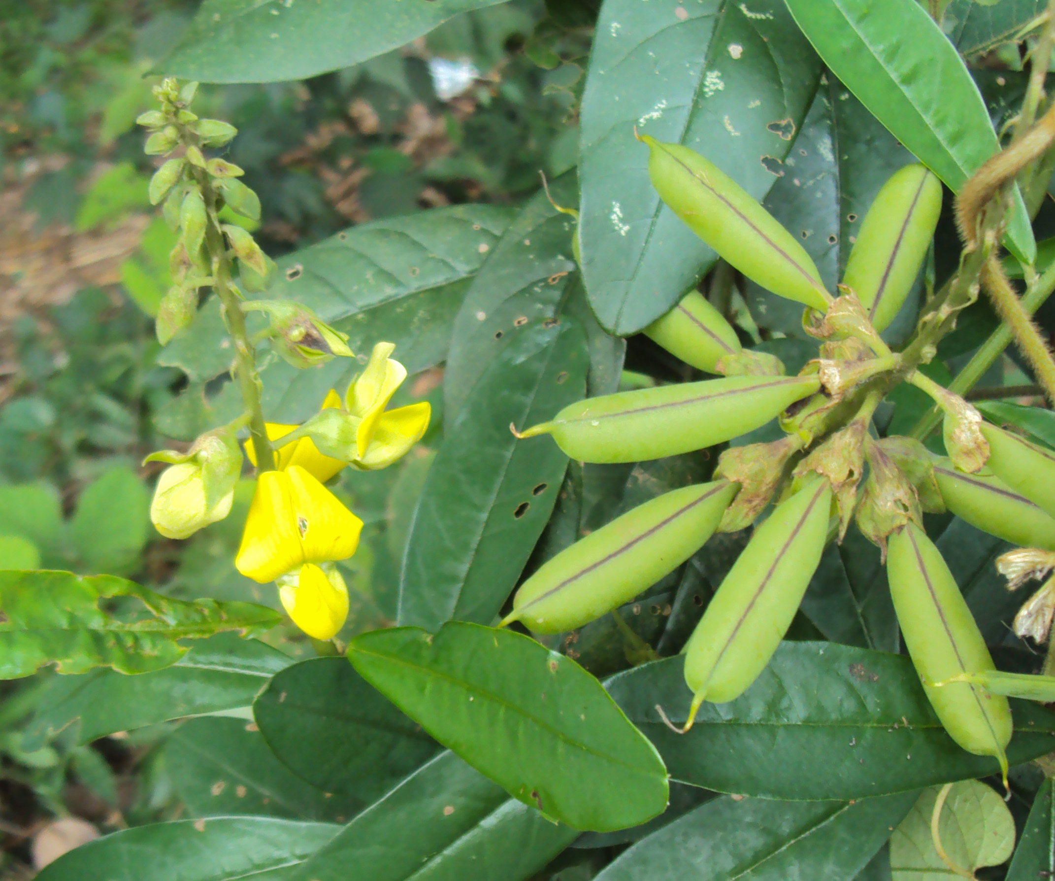 Crotalaria retusa